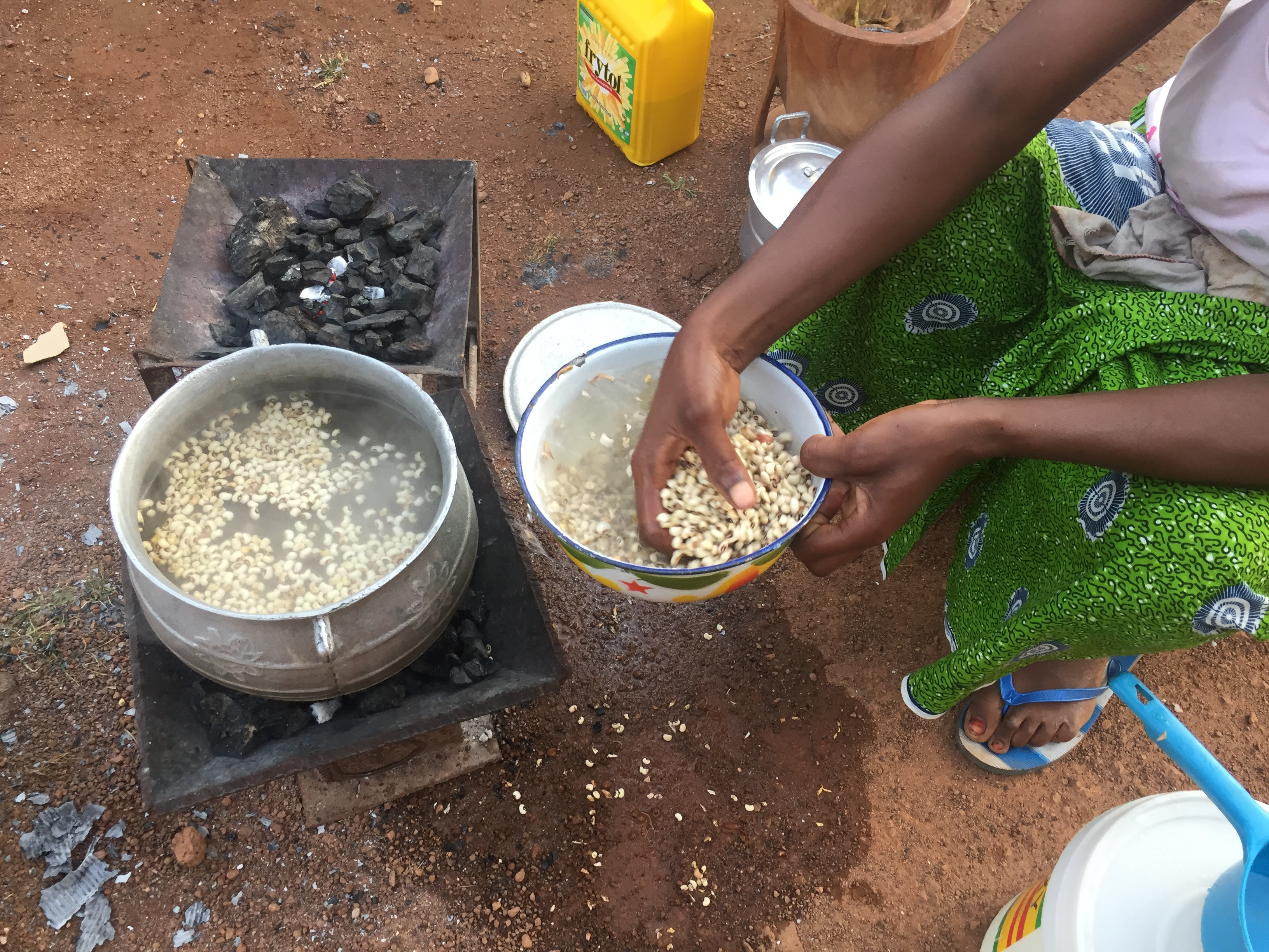 Throwing black eyed peas in boiling water This is an image of "African people at work" from Ghana